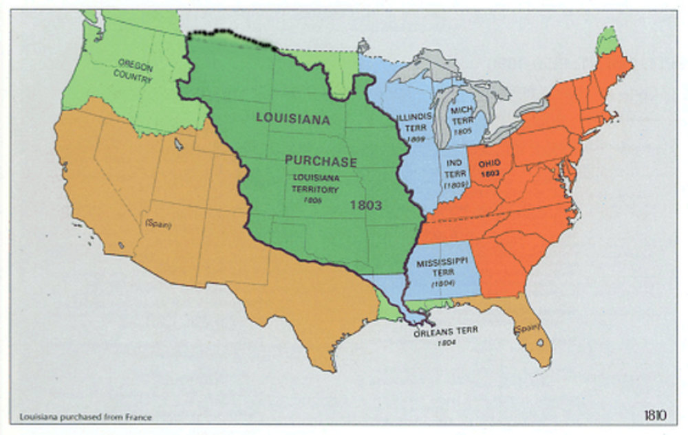 Map of the Louisiana Purchase. This is an updated more accurate image. This map was obtained from an edition of the National Atlas of the United States. Like almost all works of the U.S. federal government, works from the National Atlas are in the public domain. Online access